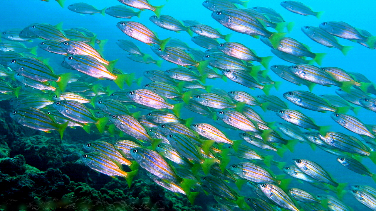 A school of Yellow-lined grunter (Pomadasys quadrilineatus) in the south shore of Long-Dong Bay, a famous scuba diving site located at northeast coast of TAIWAN. This photo was taken by Vincent C. Chen on Sep. 19, 2015